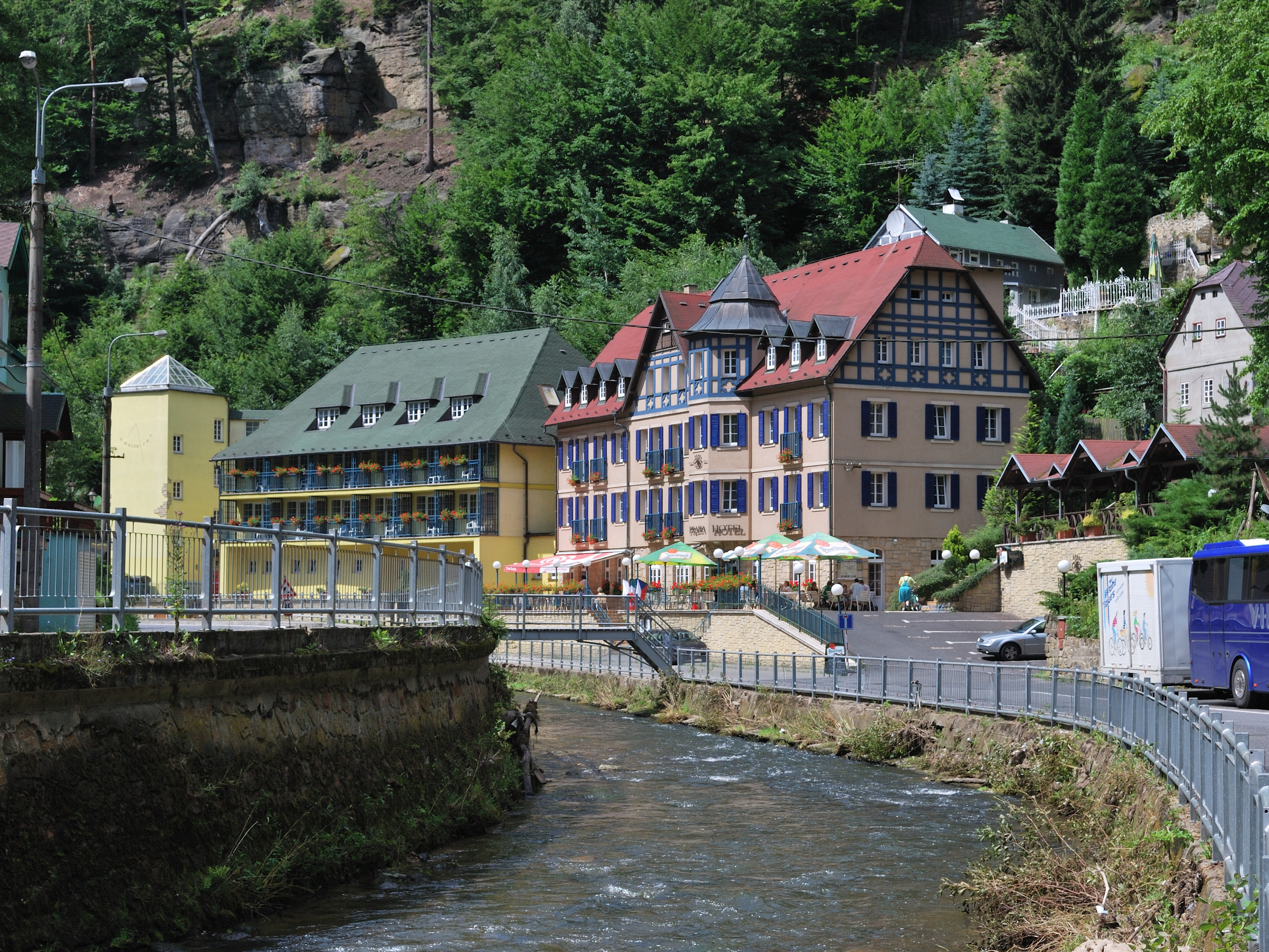 The village Hřensko at the river Kamenice in the North of the Czech Republic.